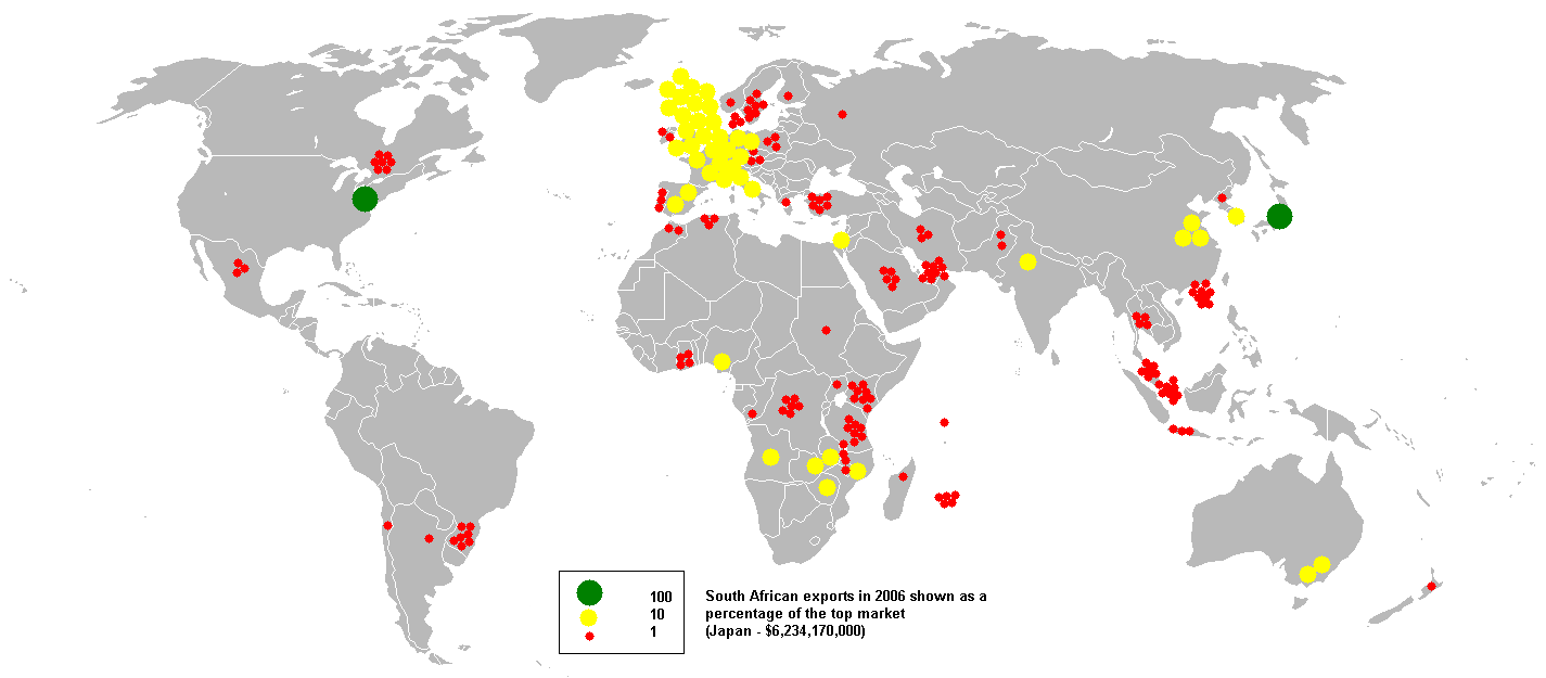 This bubble map shows the global distribution of South African exports in 2006 as a percentage of the top market (Japan - $6,234,170,000). This map is consistent with incomplete set of data too as long as the top producer is known. It resolves the accessibility issues faced by colour-coded maps that may not be properly rendered in old computer screens.